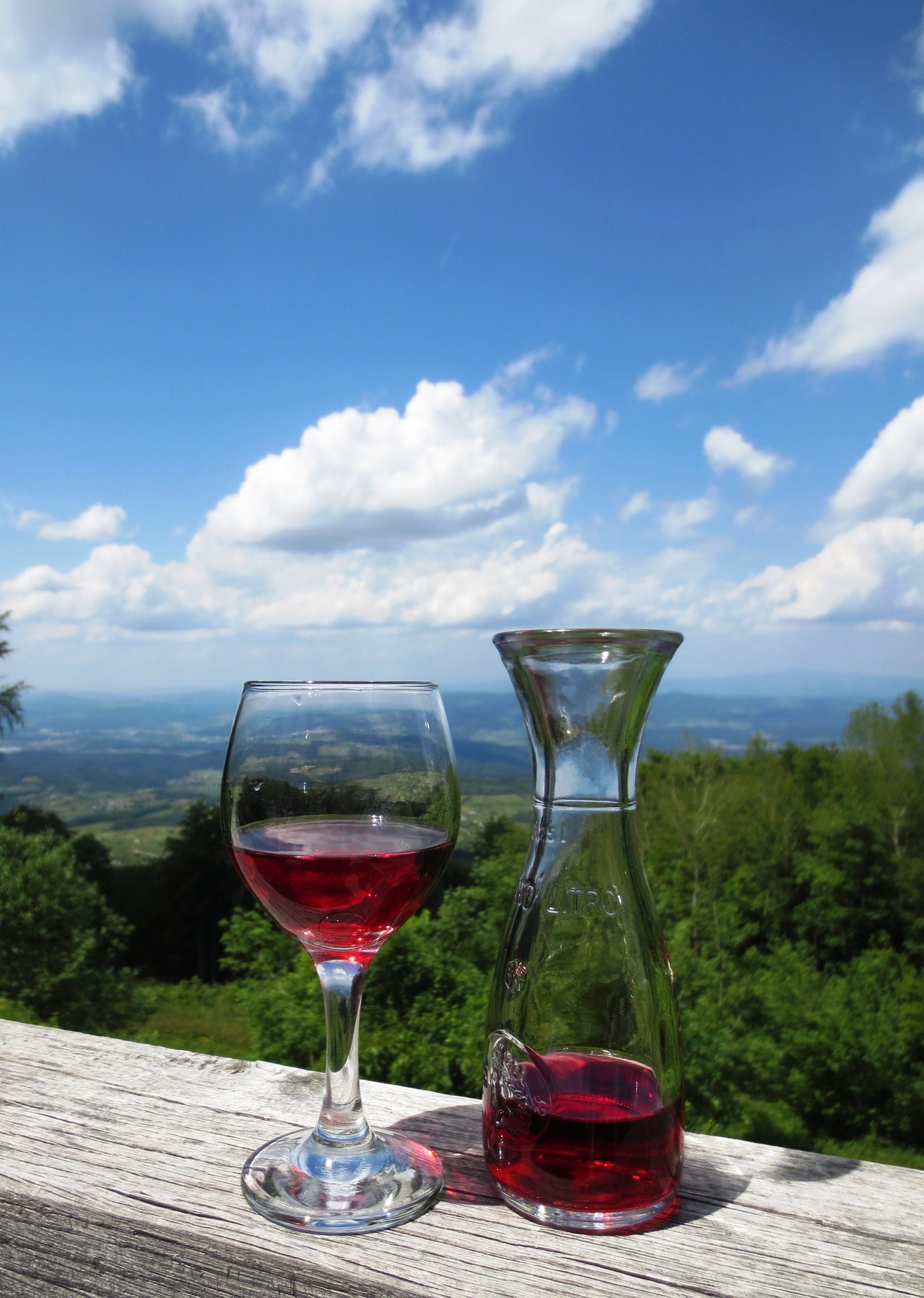 A glass of cviček at Gospodična / Trdinov vrh / Gorjanci, Dolenjska region.